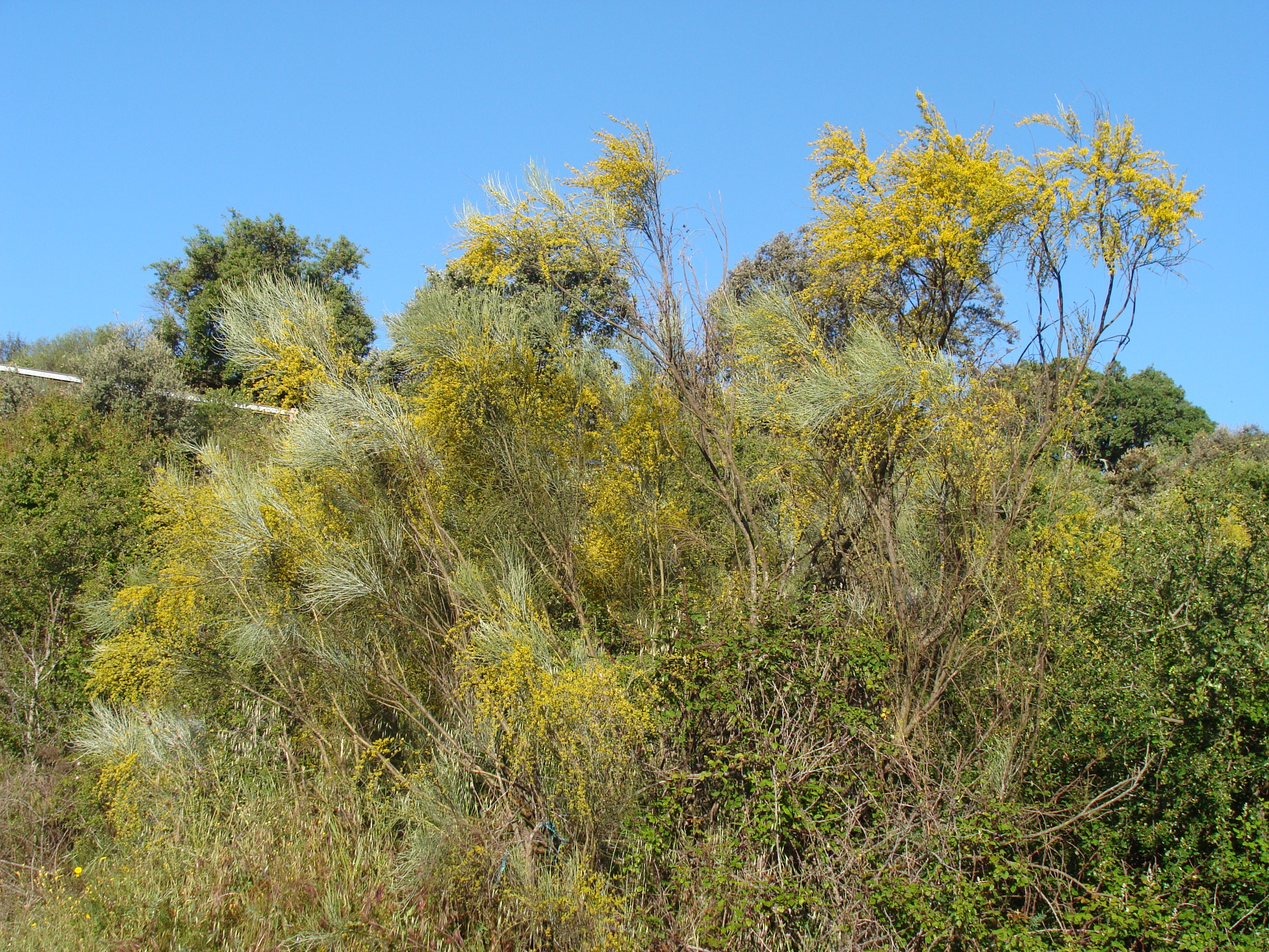 Retama sphaerocarpa, in the National Park of Monfragüe, Cáceres, Extremadura, Spain.